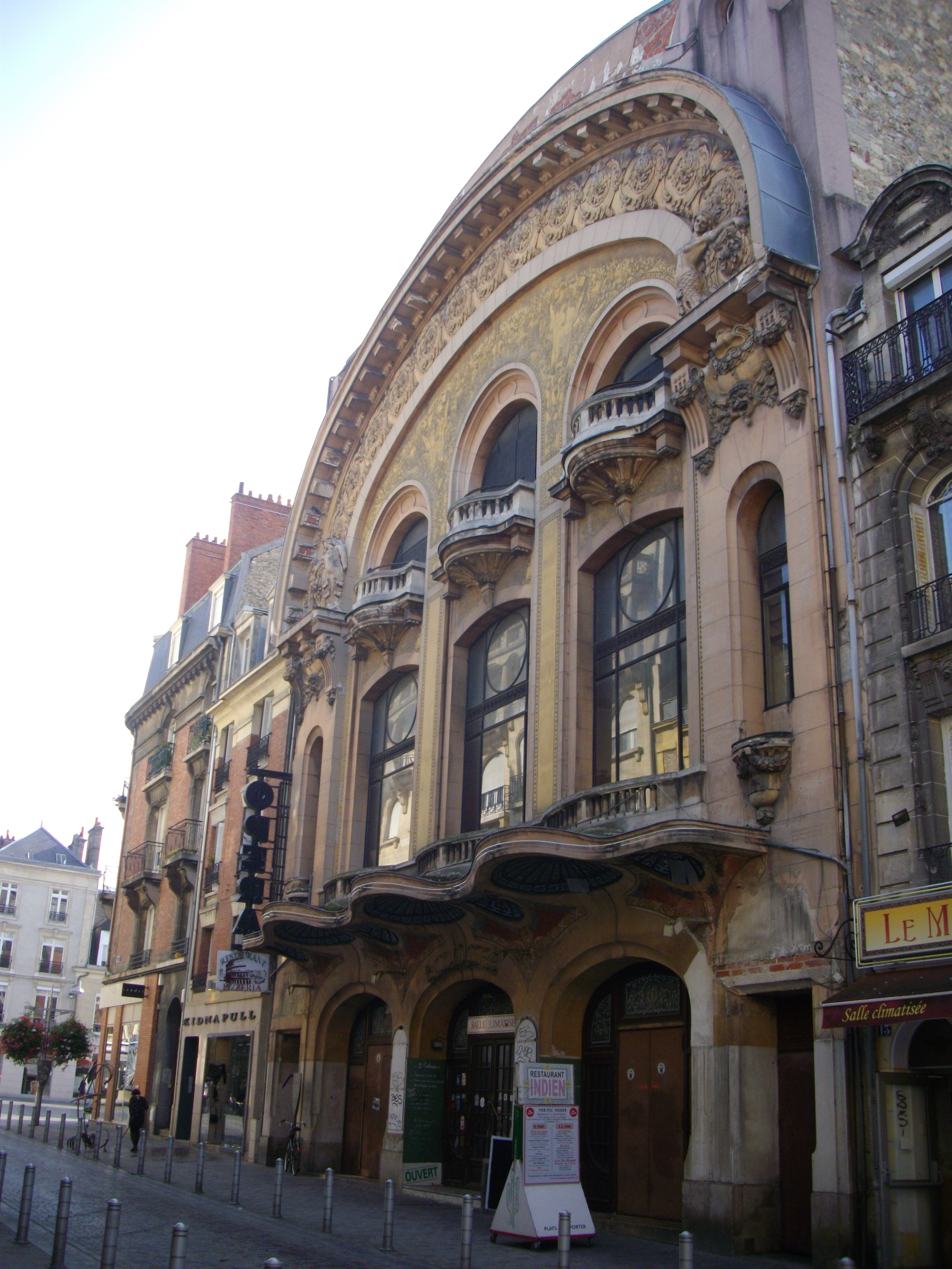 Cinema-opera of Reims (Marne, France) .